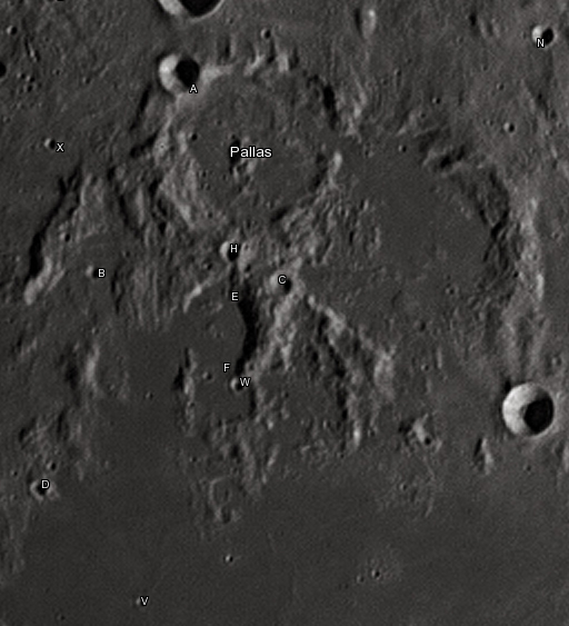 Pallas lunar crater as seen from Earth with satellite craters labeled